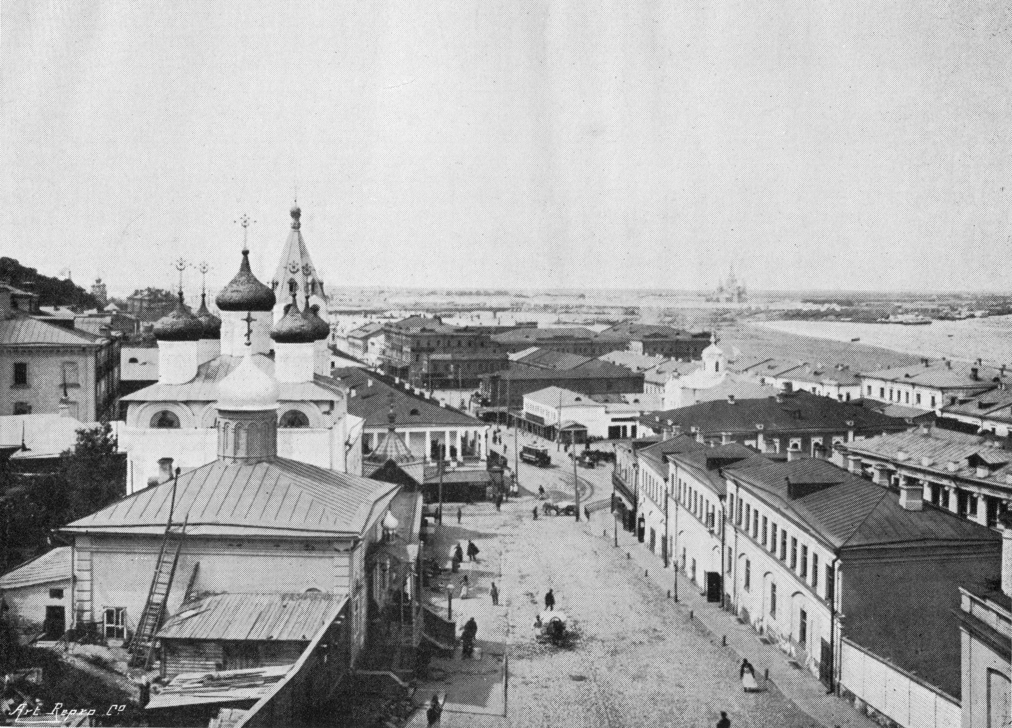 Nijni Novgorod fair. In: George R. Cripps: About Furs.